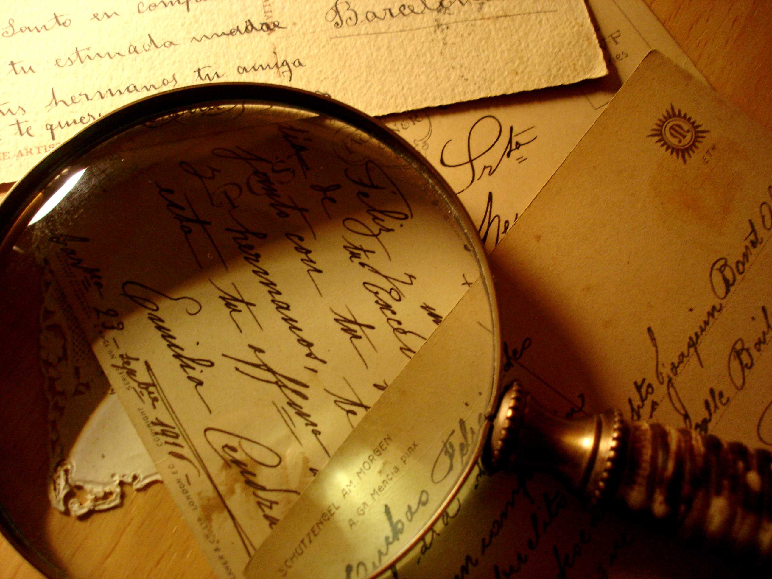 Old postcards and a magnifying glass.